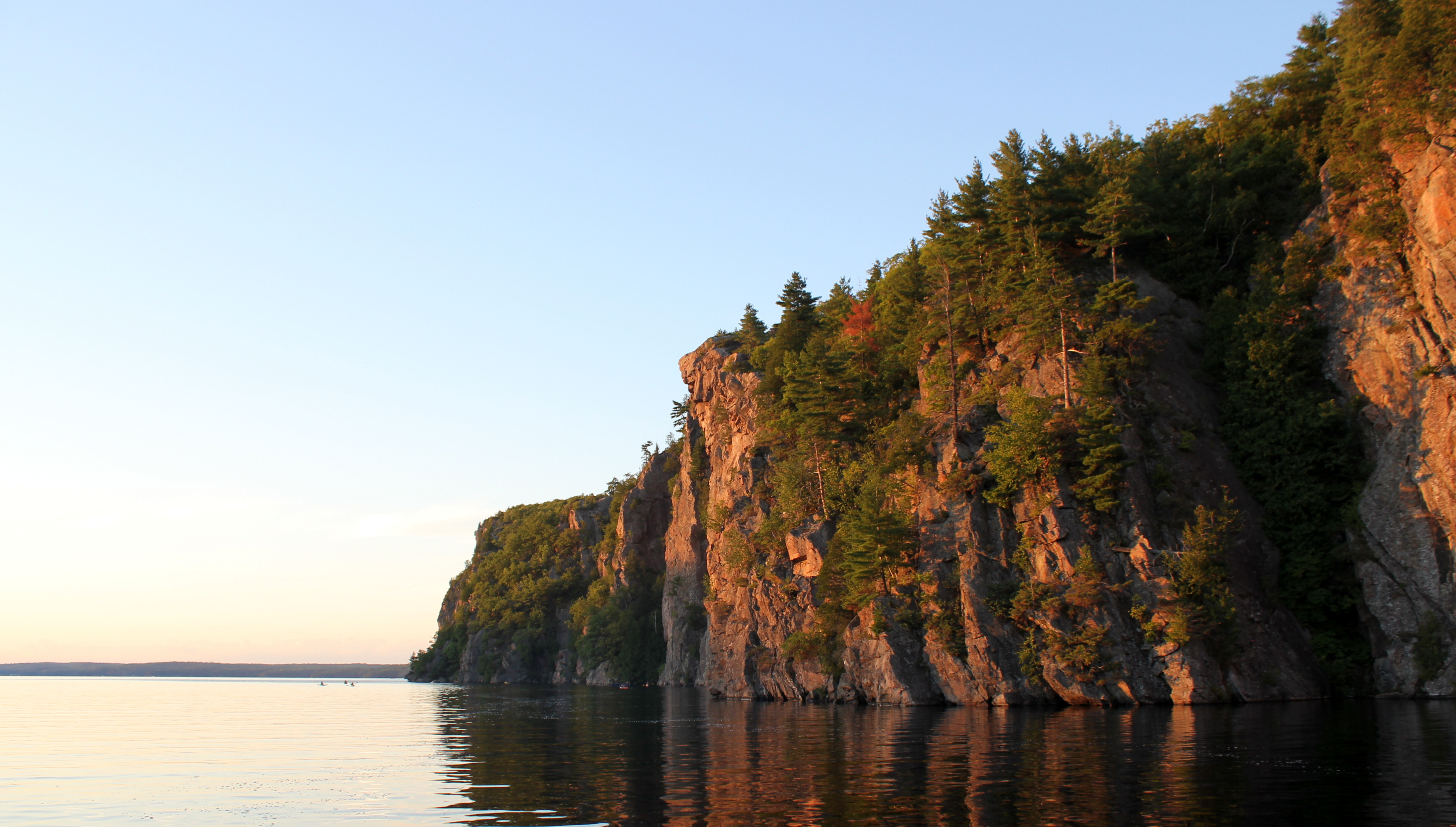 Sunset at Bon Echo Park, Ontario This photo was taken in a protected area in Canada, Wikidata item Bon Echo Provincial Park (Q3364665)